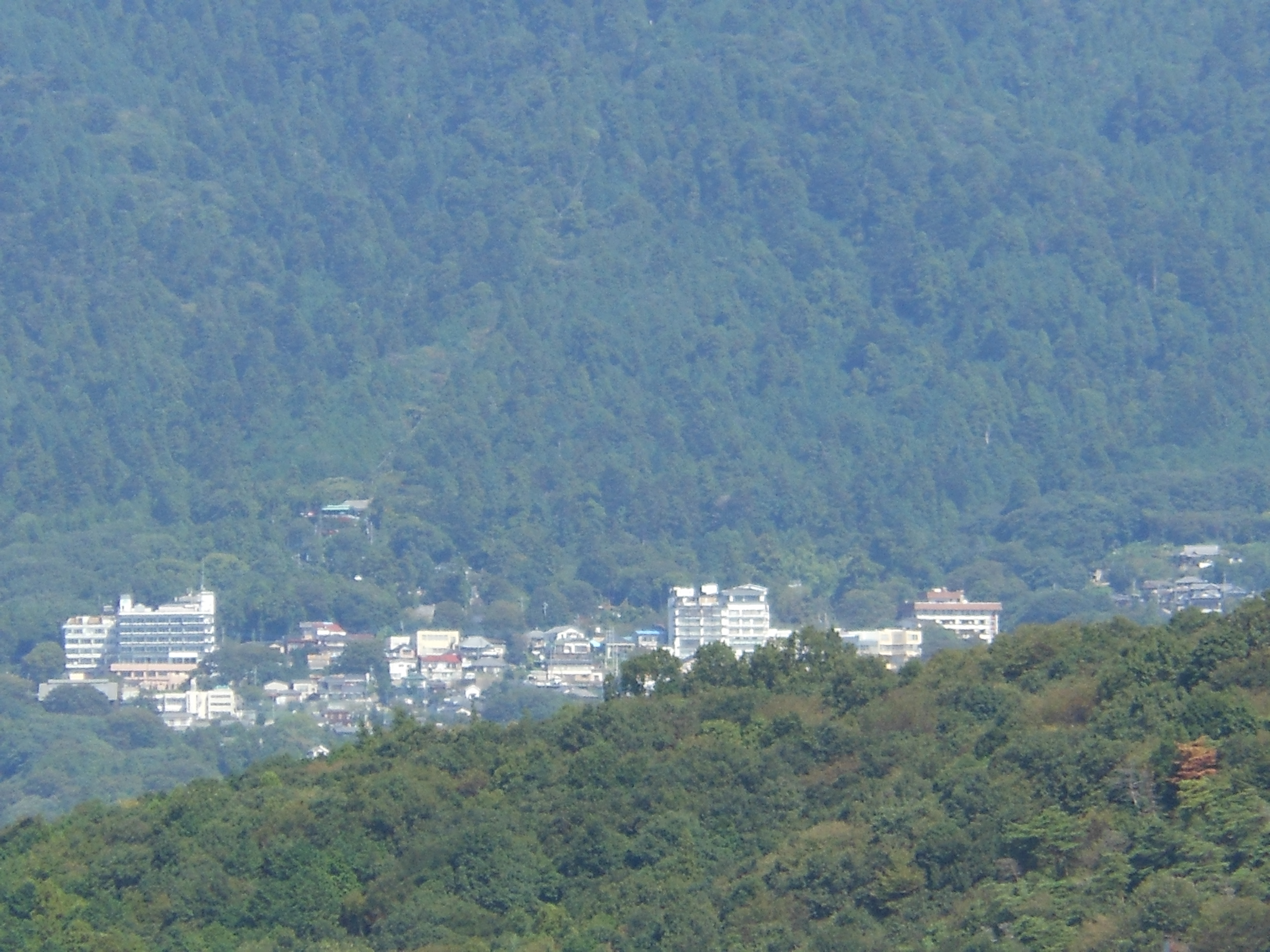 This is a landscape of Tsukuba, Tsukuba city, Ibaraki prefecture, Japan.